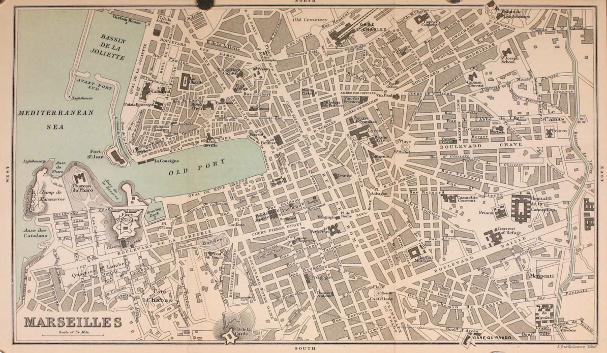 map of Marseilles